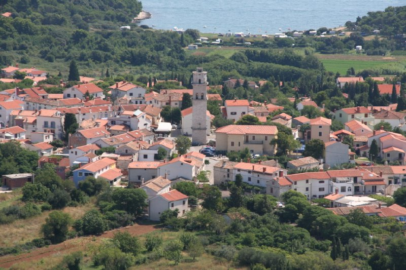 Town Premantura in Istra, Croatia